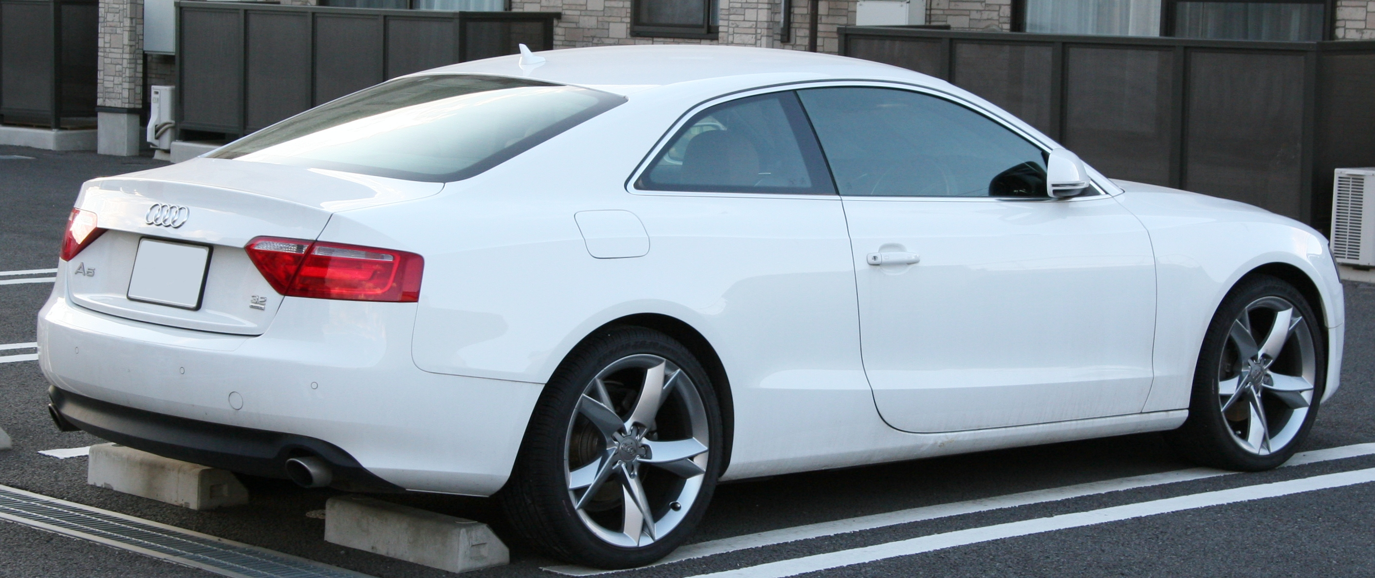 Audi A5